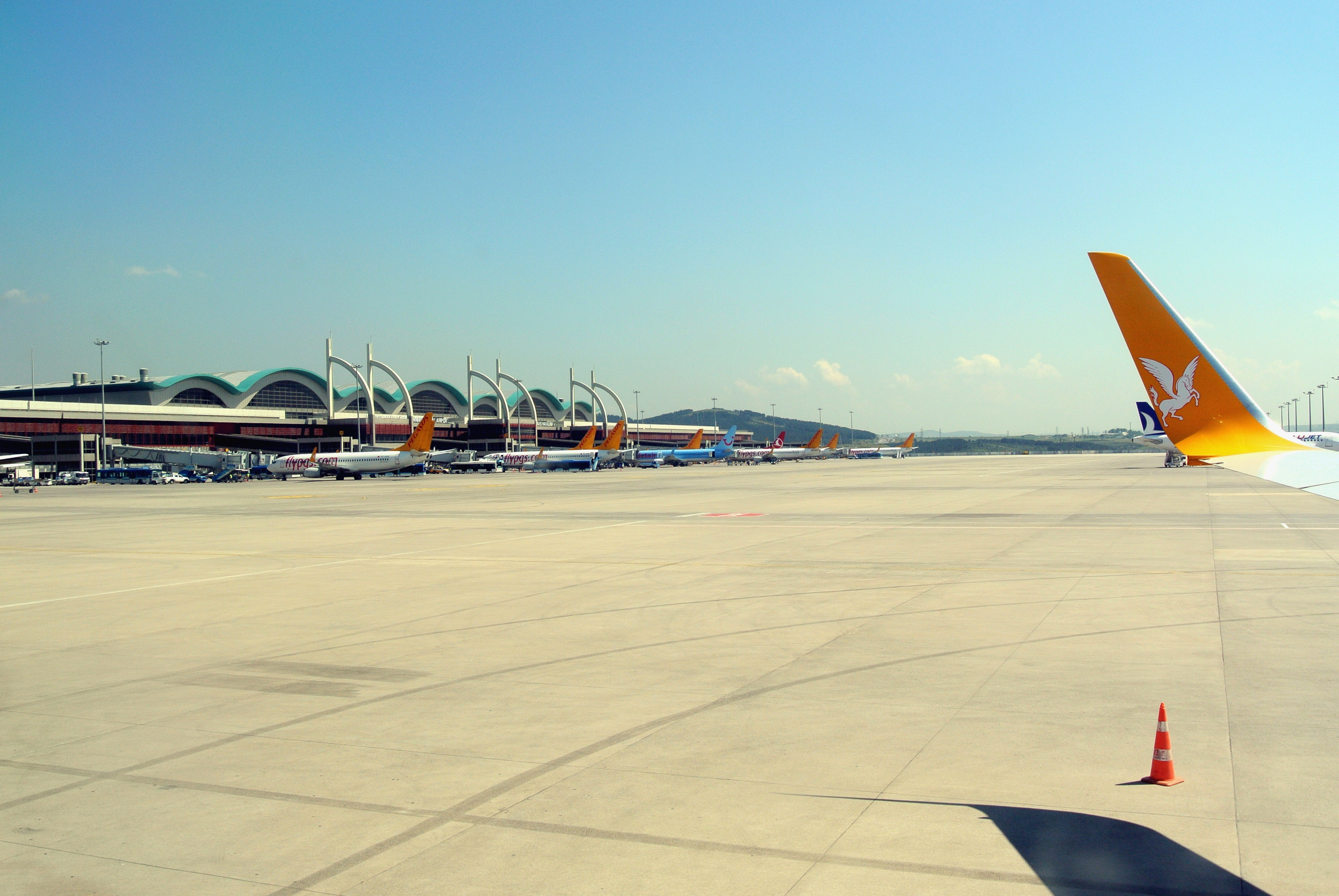 Inside a Pegasus Airlines flight taxiing at Sabiha Gökçen International Airport.